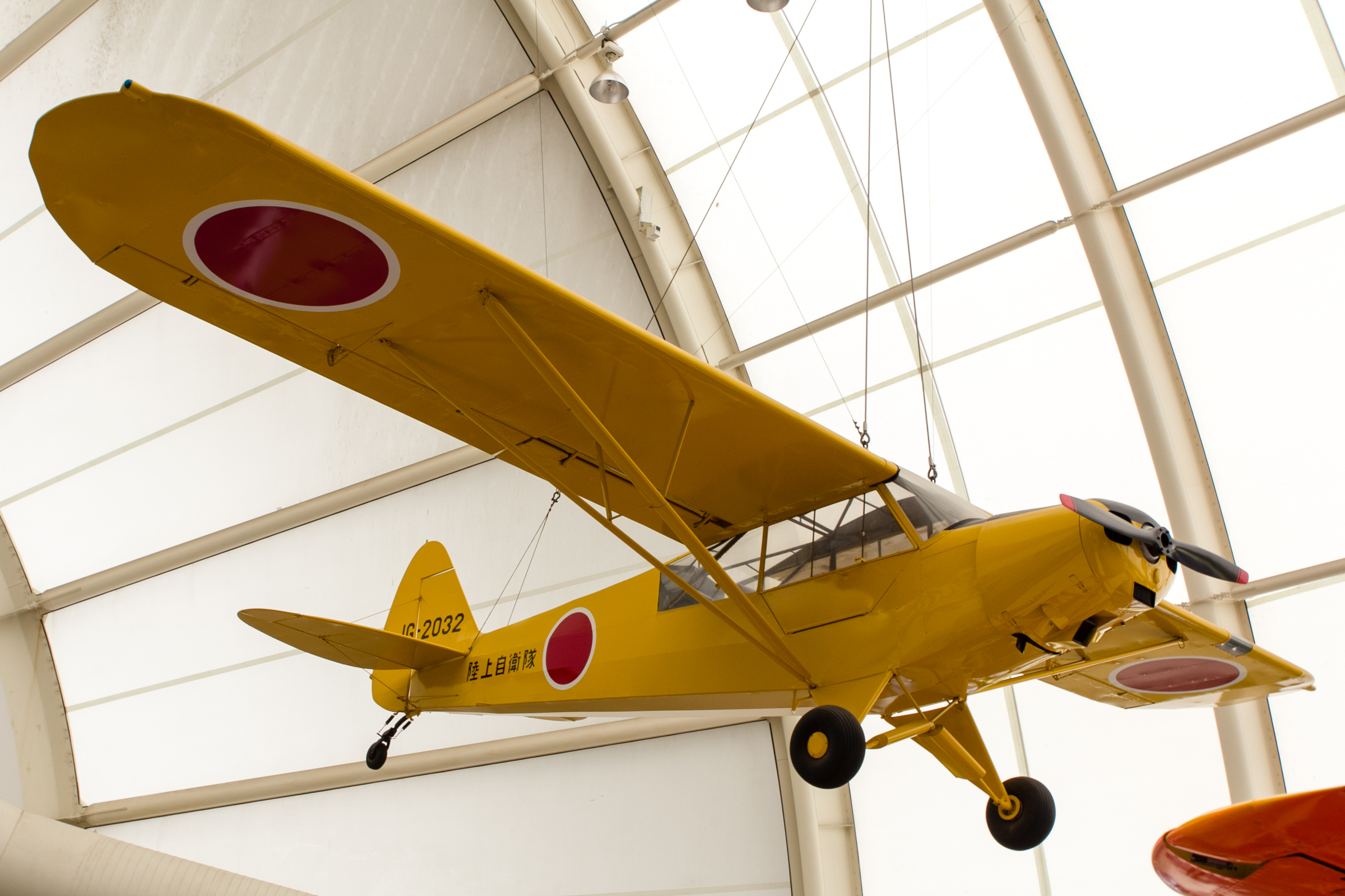 Piper L-21 at the Tokorozawa Aviation Museum